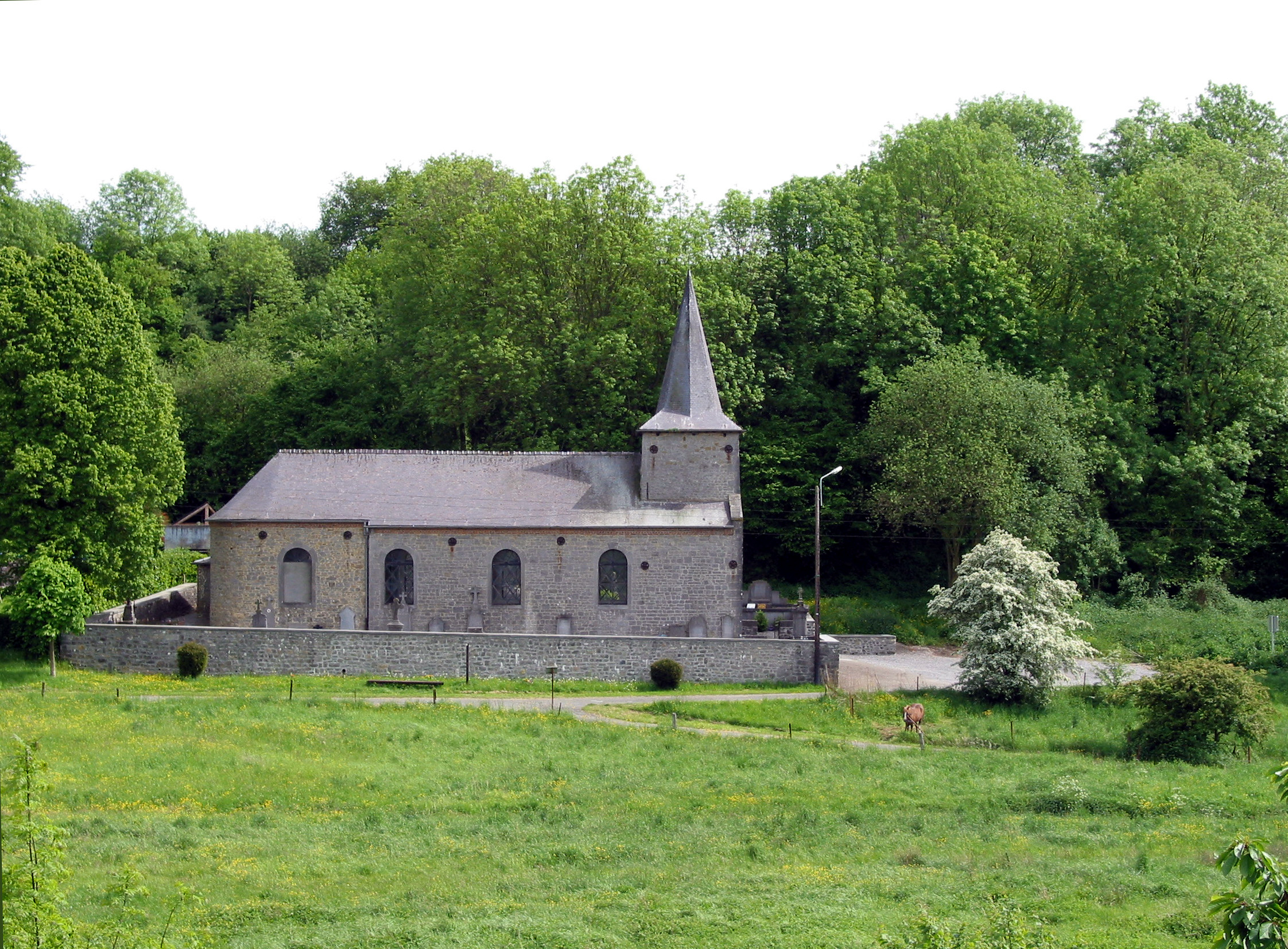 Fairoul (Fraire) (Belgium), the chapel of the Our Lady of the Assumption (1841).